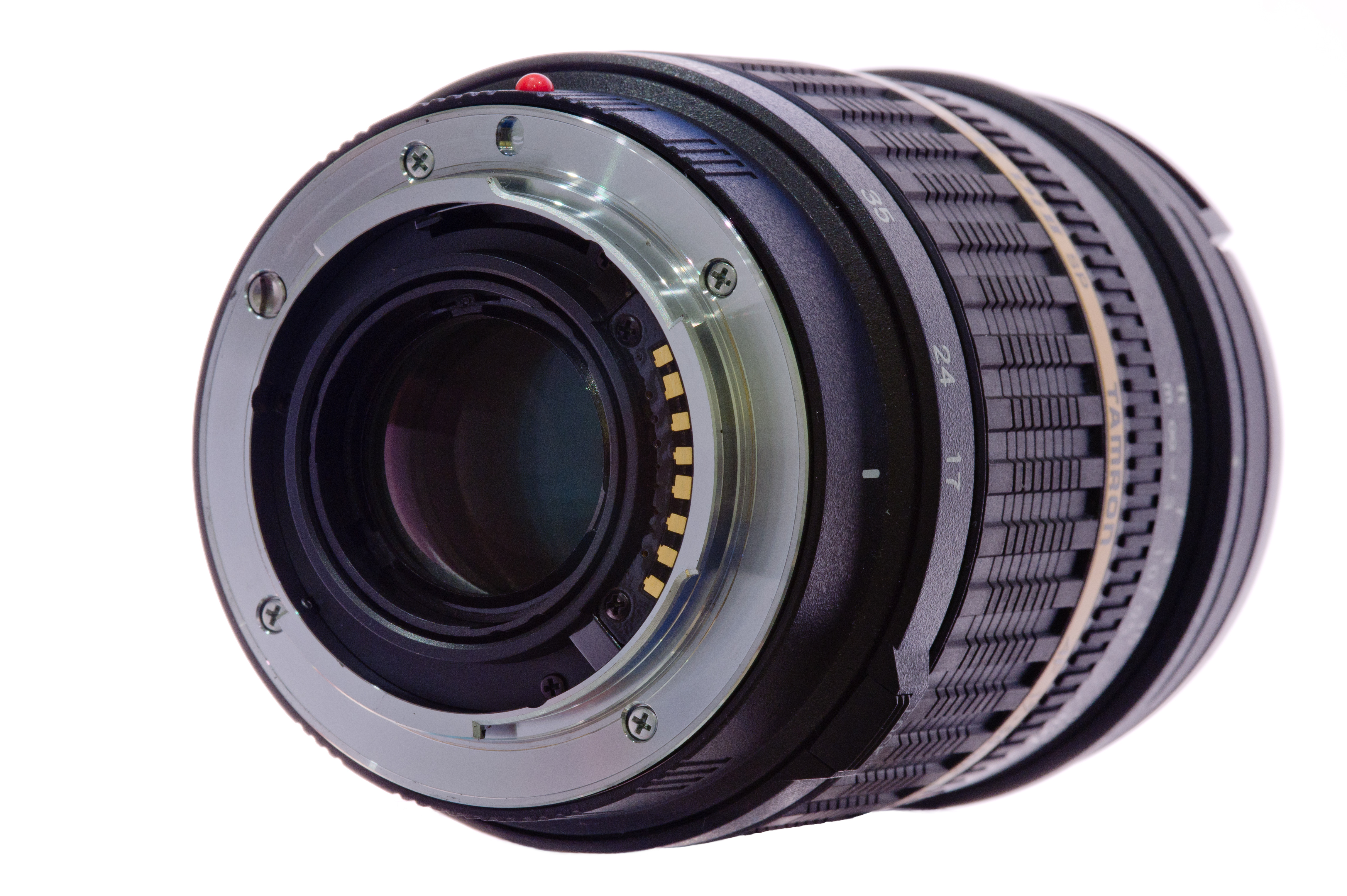 A lens showing the Sony Alpha mount with eight contacts and screw drive focus. The lens is a Tamron SP 17-50mm F2.8.